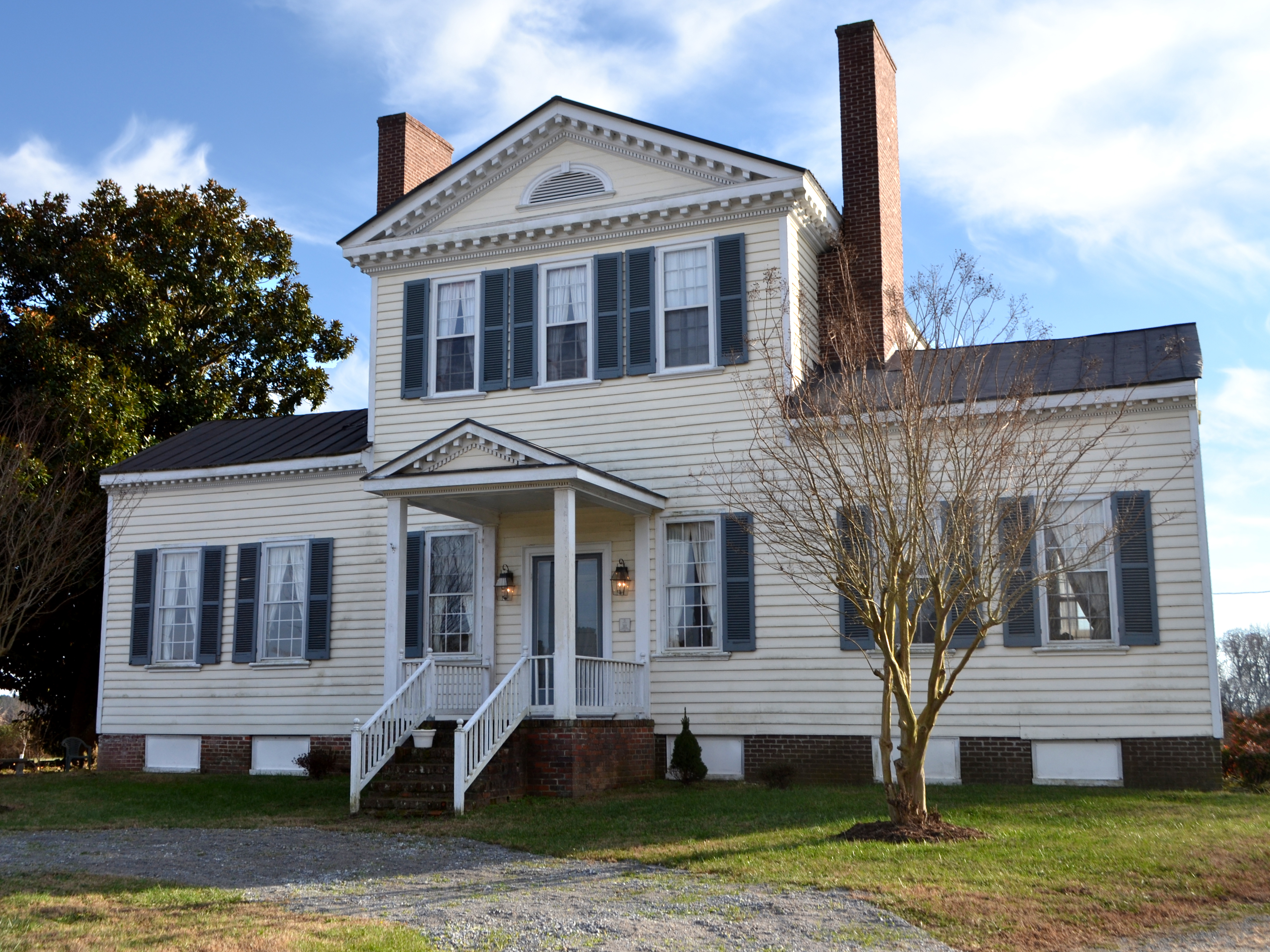 Front exterior of Fortsville